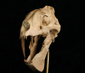 Saber tooth nimravids, like this Eusmilus, filled the Cat niche 30 million years ago.